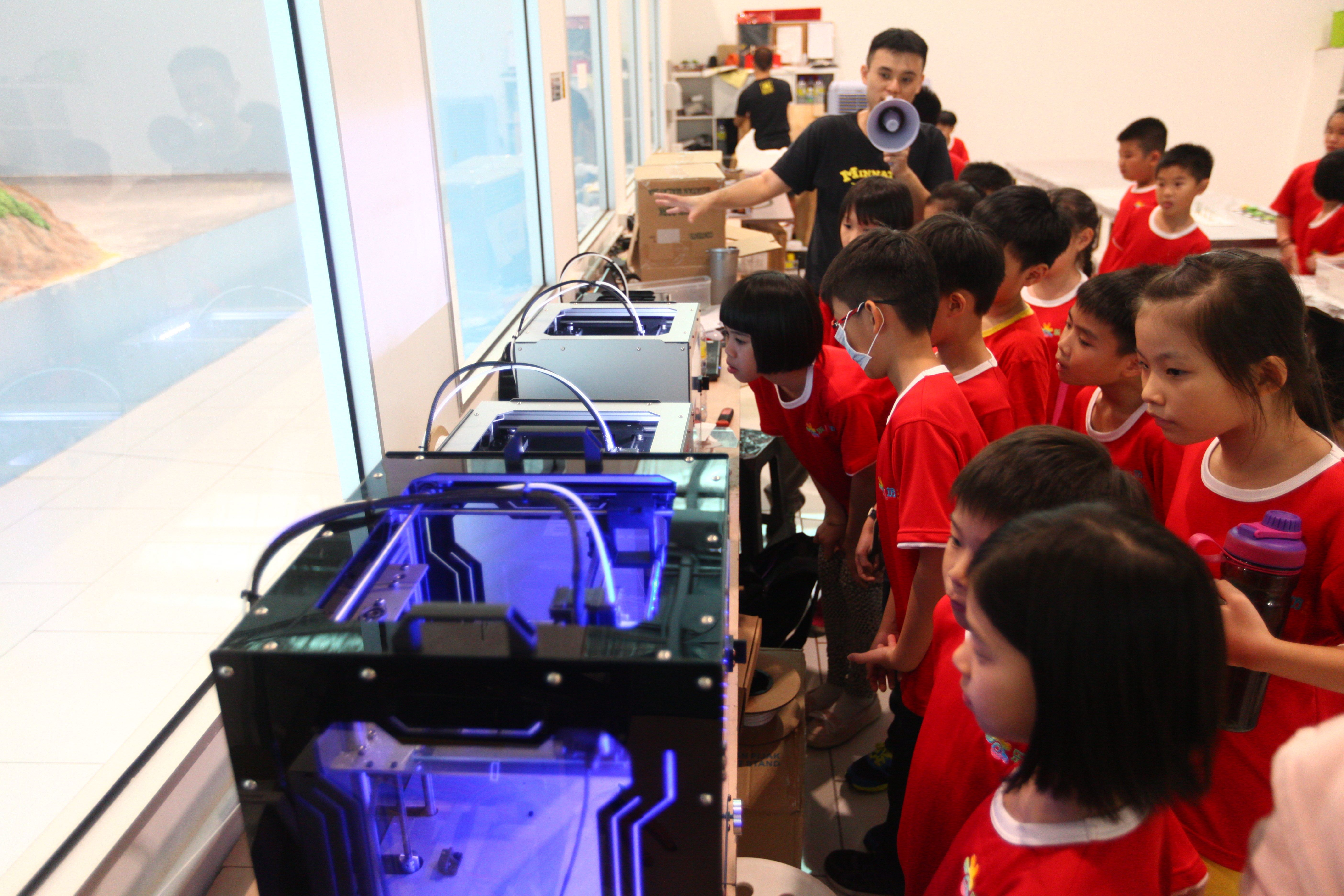 Children viewing MinNature exhibits upclose. School Excursion.